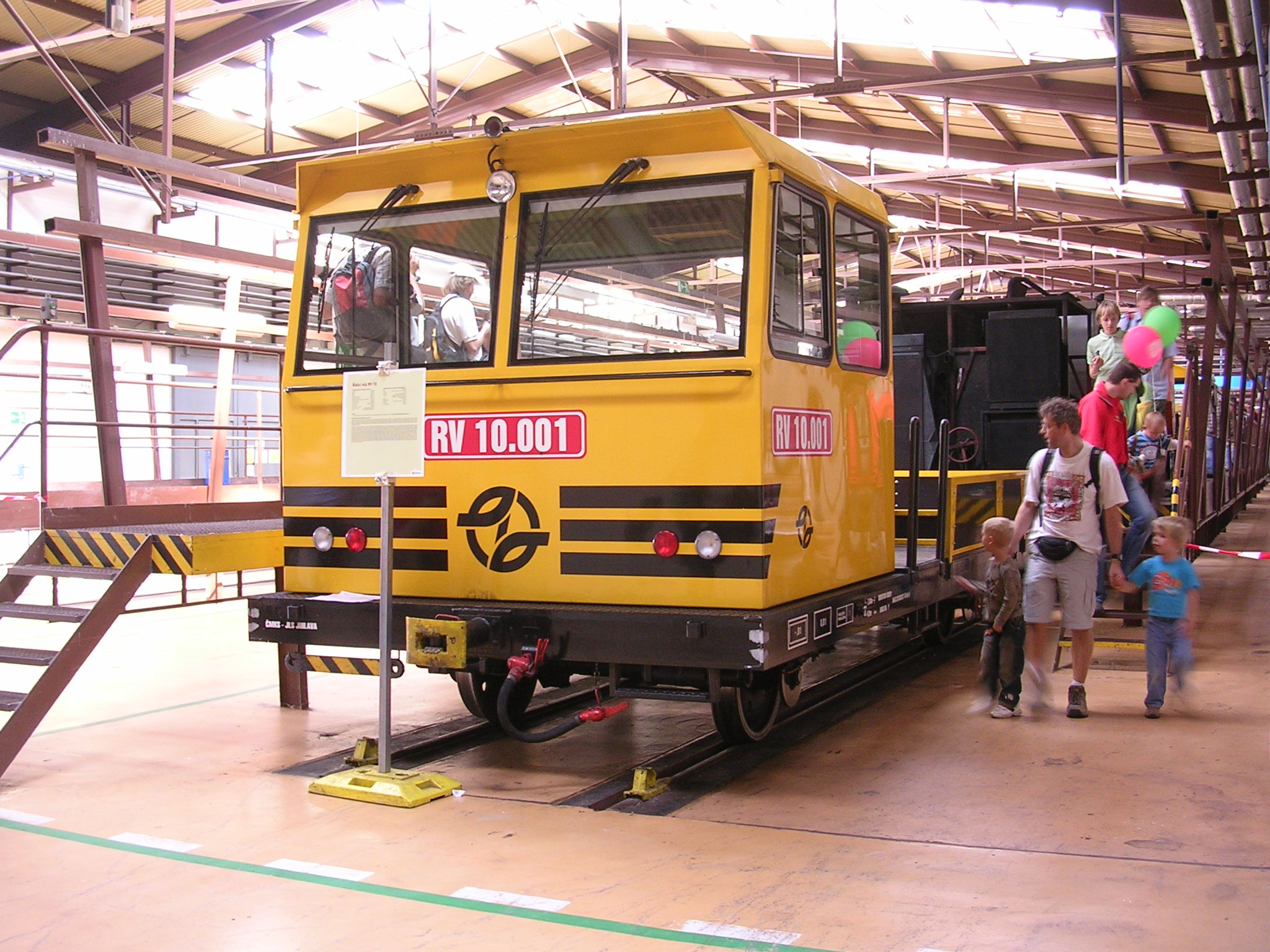 Třebonice, Prague, the Czech Republic. Open Doors Day in Zličín metro depot. RV 10, a service control car of Prague Metro. - Google Maps - Google Earth